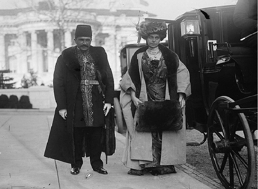 Cropped version of the figure